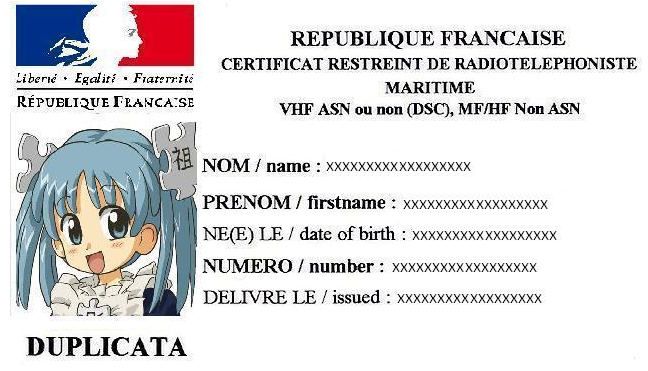 Long Range Certificate (LRC) VHF HF MF